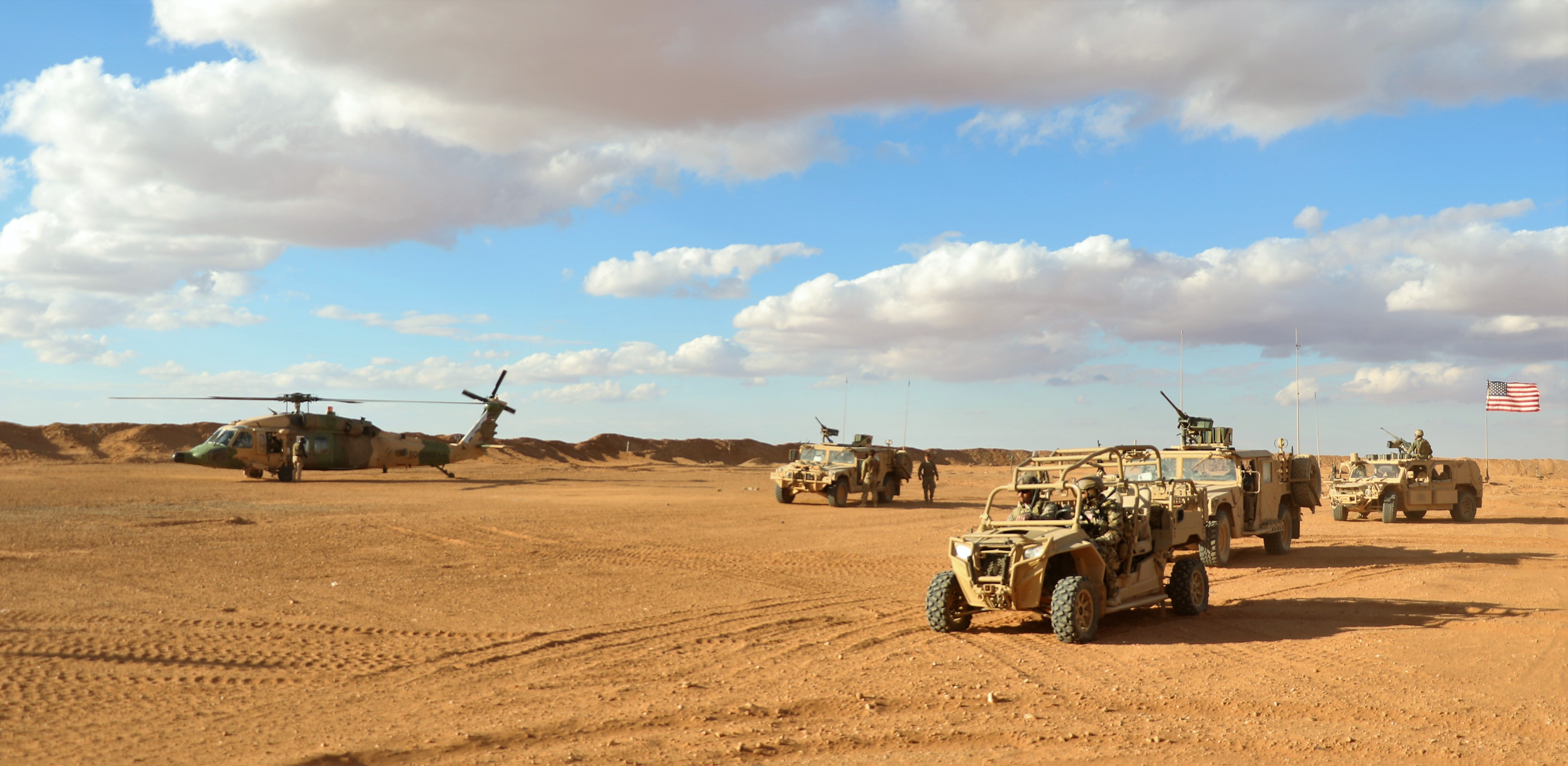 5th Special Forces Group (A) Operation Detachment Bravo 5310 arrives to meet Major General James Jarrard at the Landing Zone at base camp Al Tanf Garrison in southern Syria